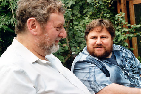 Director Kevin Jon Davies talking with author Nick Webb